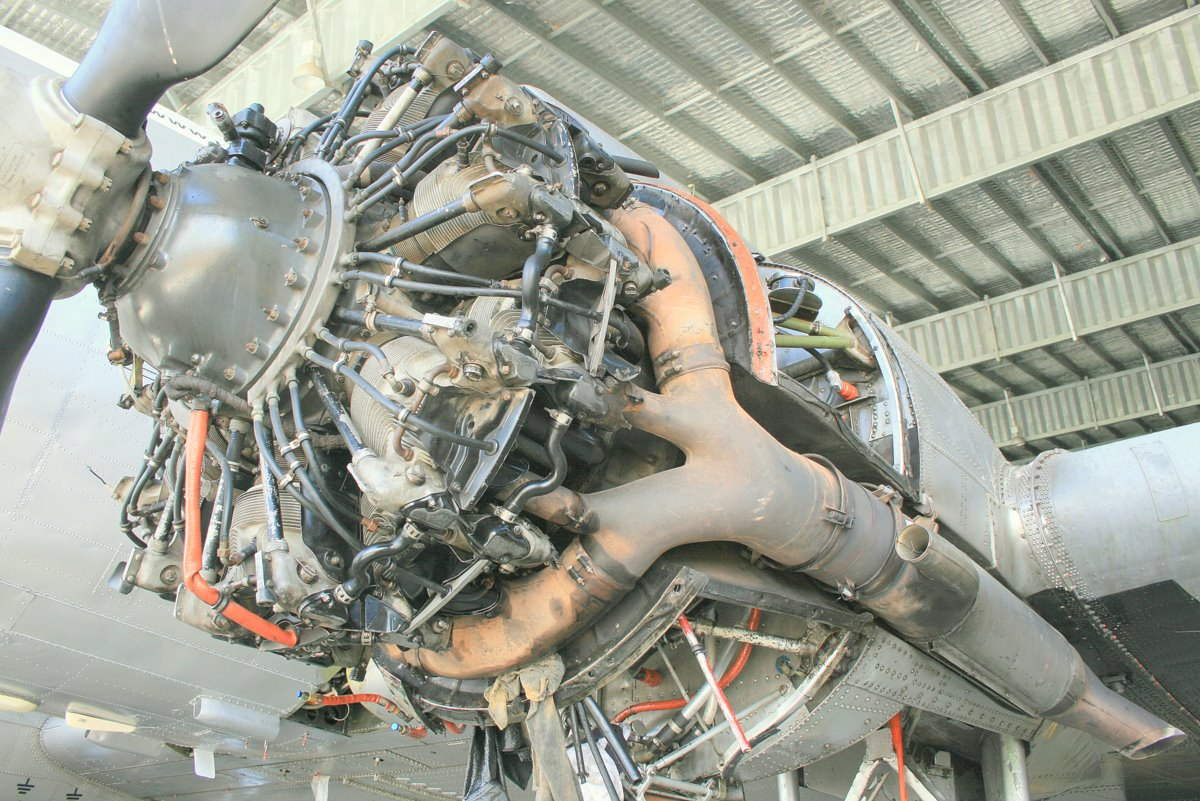 A Pratt and Whitney R-1830 radial engine, mounted on the left wing of an ex-military Douglas C-47 undergoing maintenance.